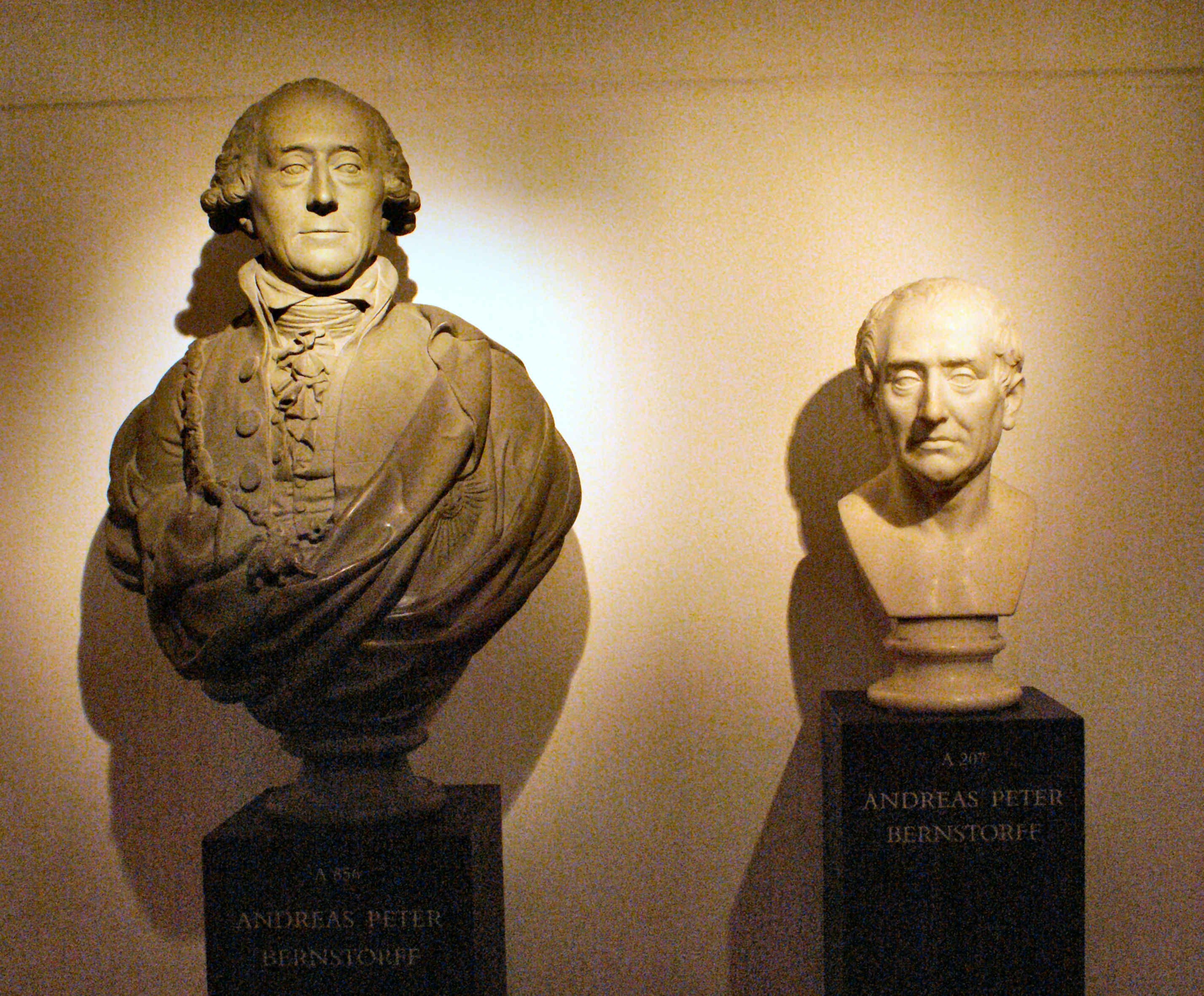 Danish count og prime minister, 1735-97, two different wors by Bertel Thorvaldsen, in Thorvaldsens Museum, Copenhagen